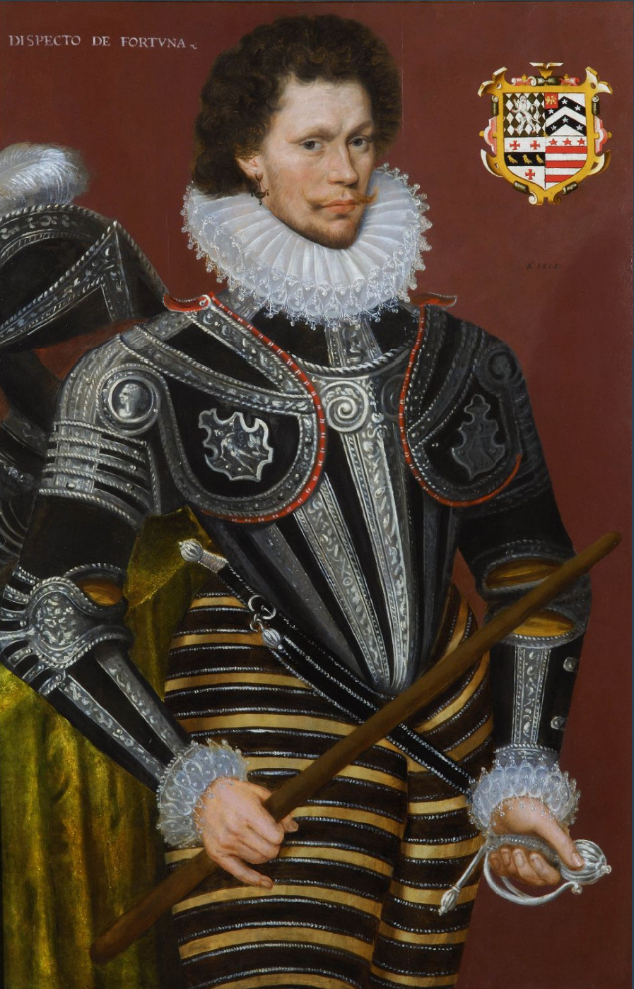 Portrait of Edward Gill